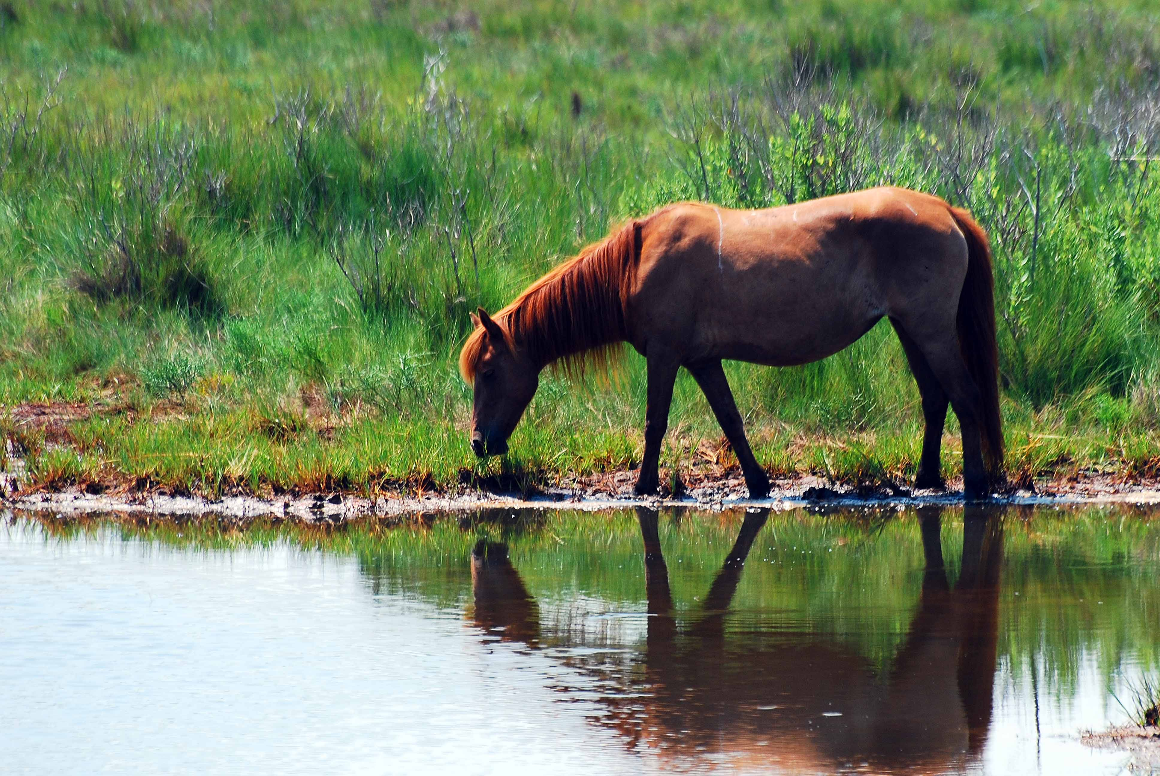 Chincoteague Horse